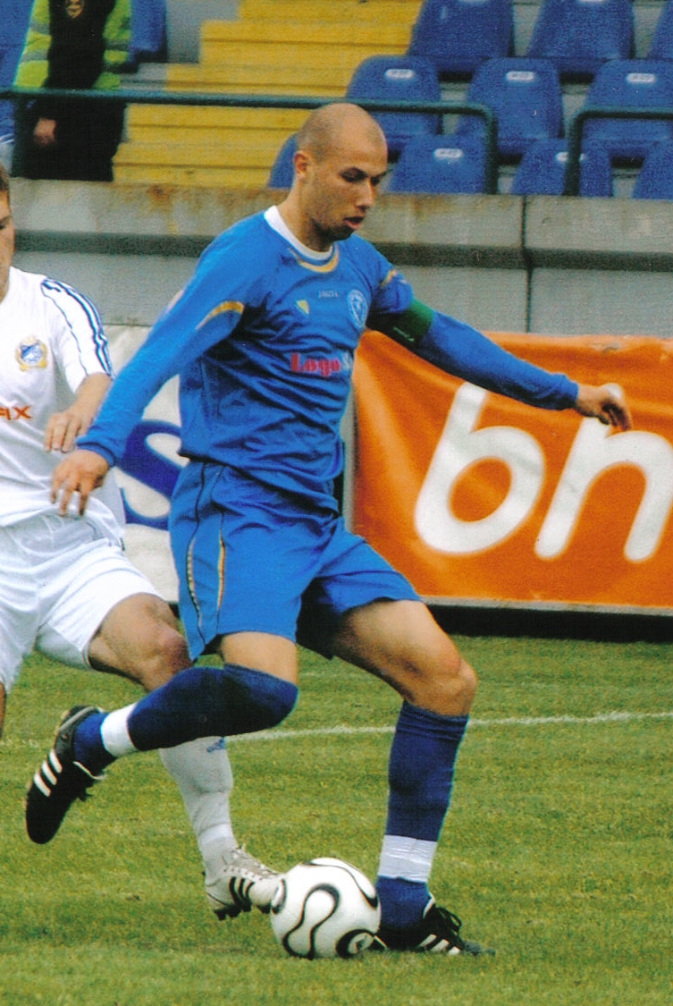 Cocalic in the game.